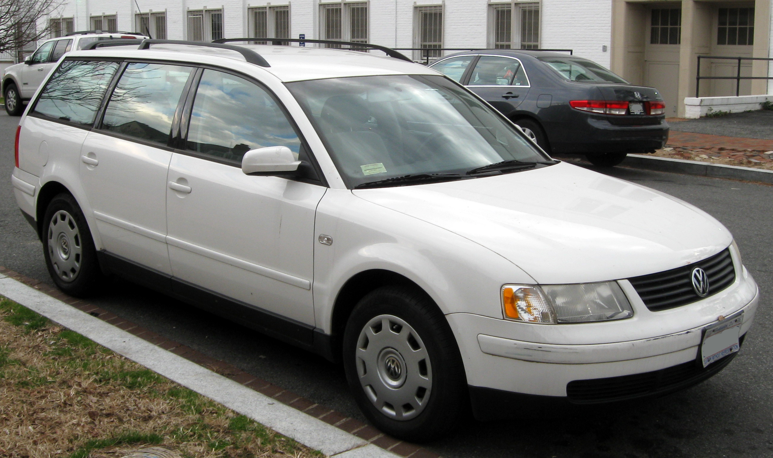 1998-2001 Volkswagen Passat photographed in Washington, D.C., USA.